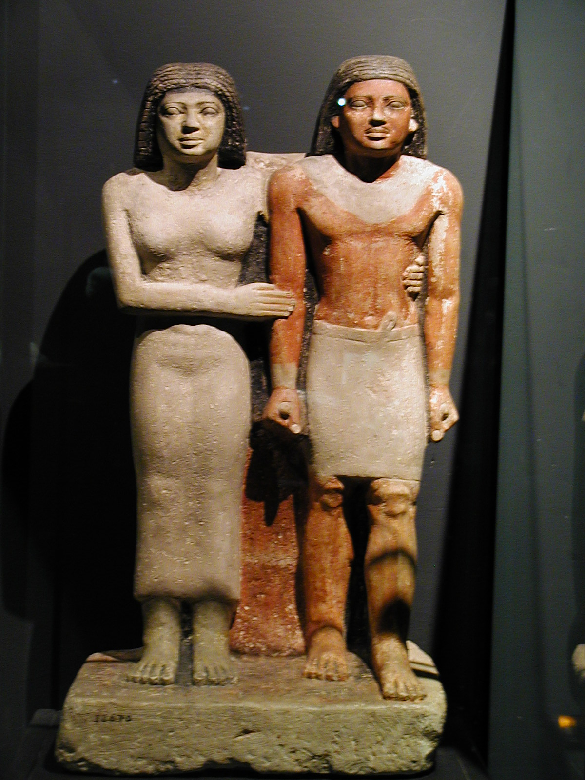 A man and his wife (found at Giza), National Museum of Alexandrea, Alexandria, Egypt.